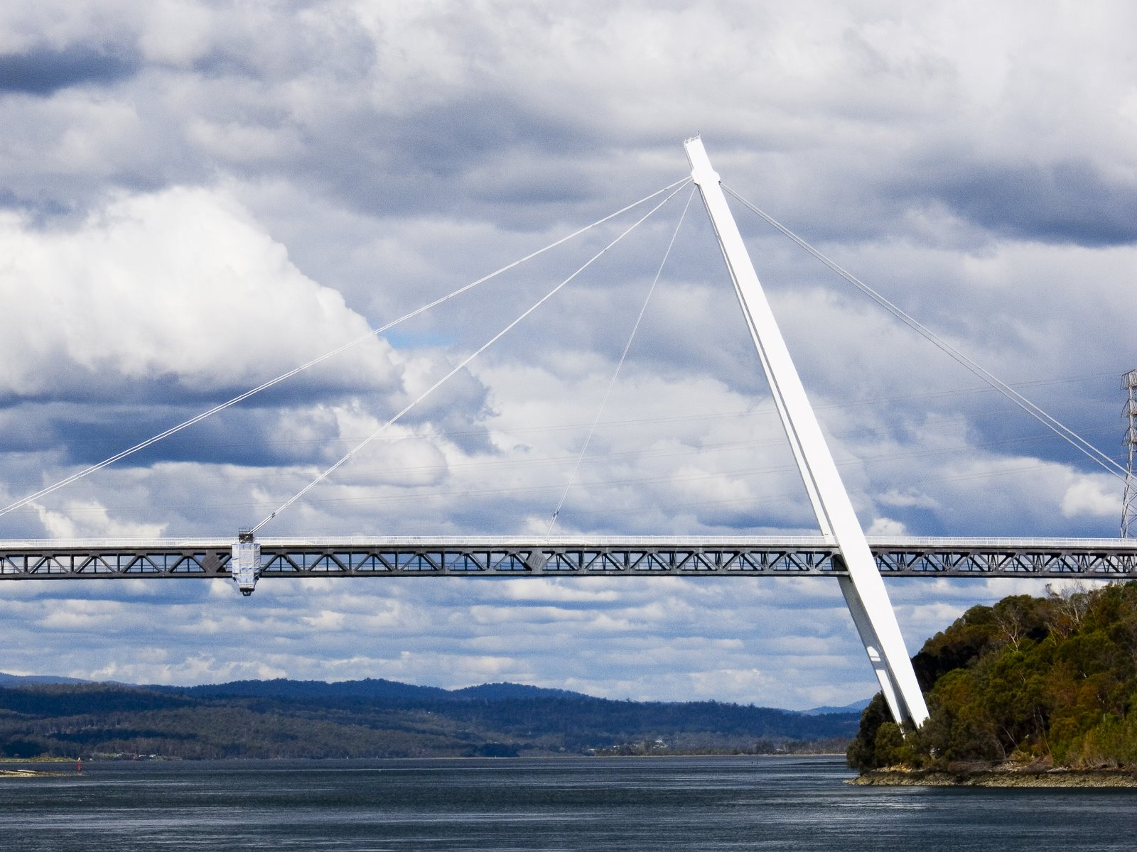 Batman bridge tower